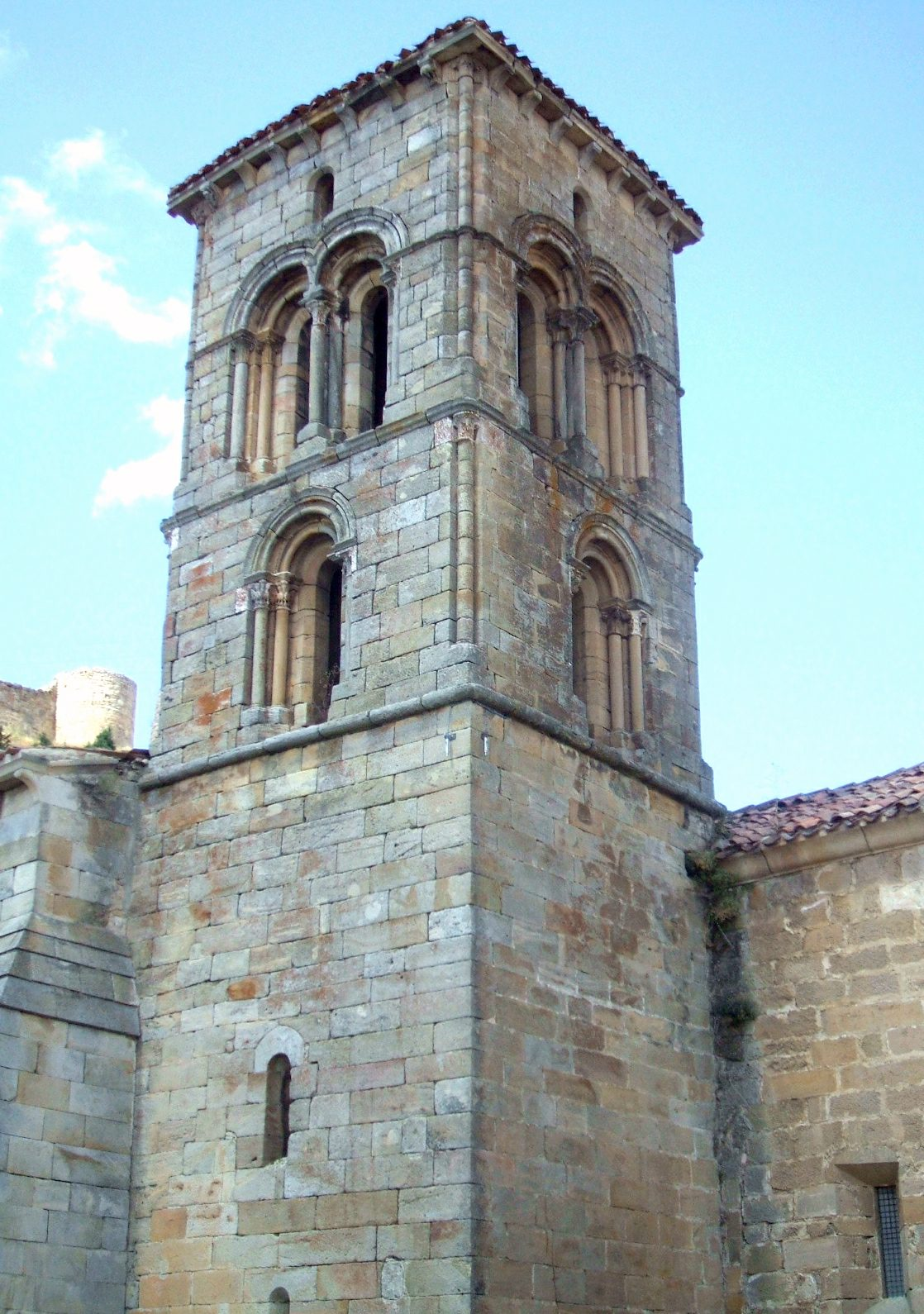 Torre románica de la ermita de Santsa Cecilia, Aguilar de Campoo (Palencia, Castilla y León, España)